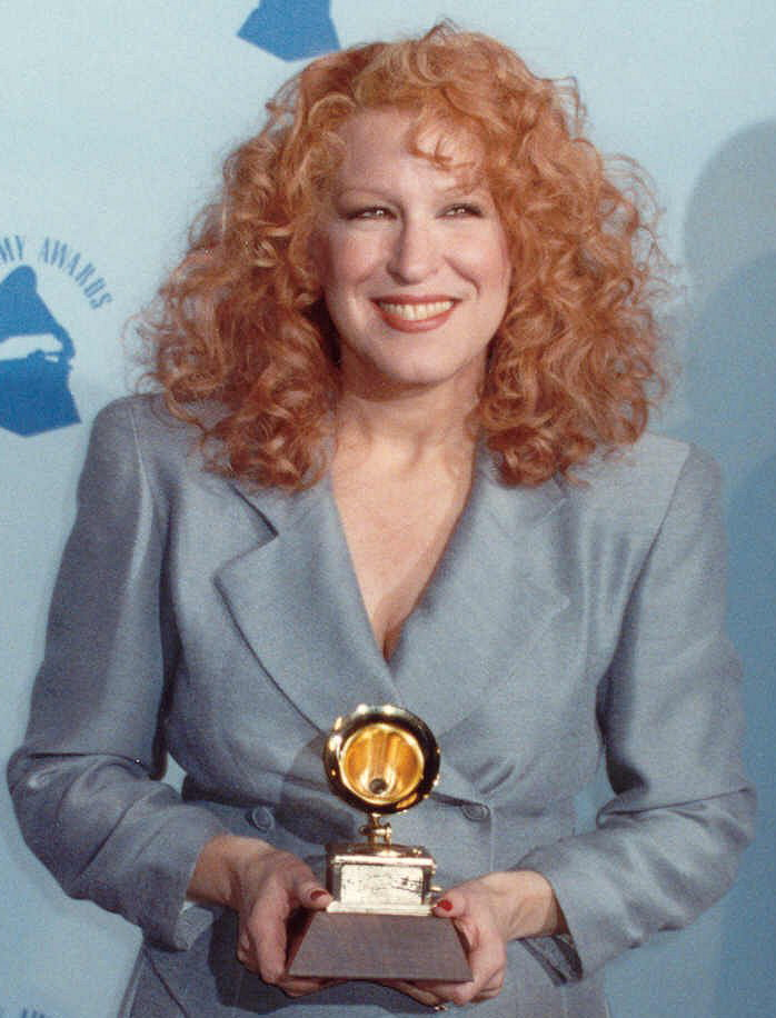 Photo of Bette Midler backstage at the Grammy Awards.